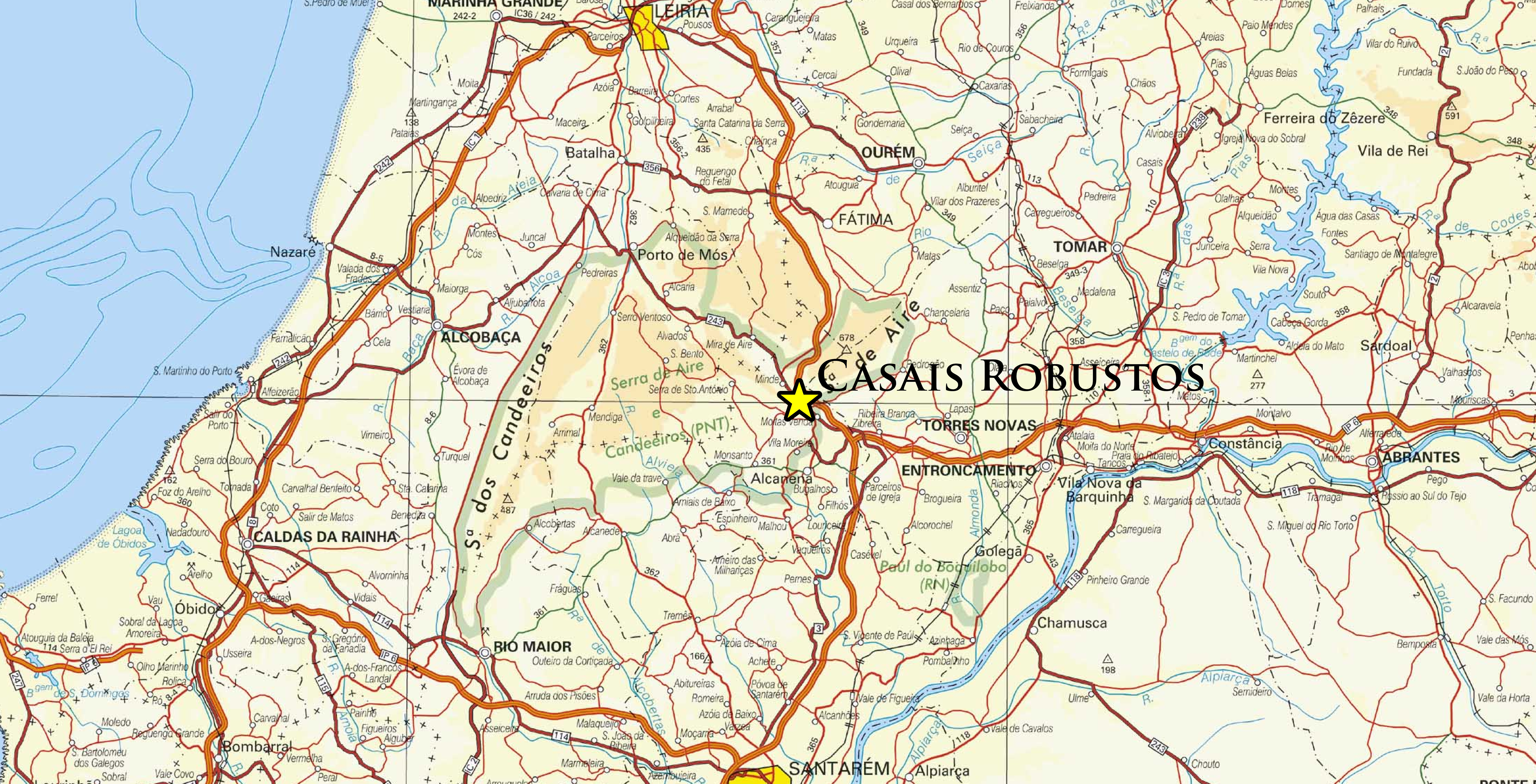 Localização de Casais Robustos no centro de Portugal Casais Robustos Map, Portugal's central region